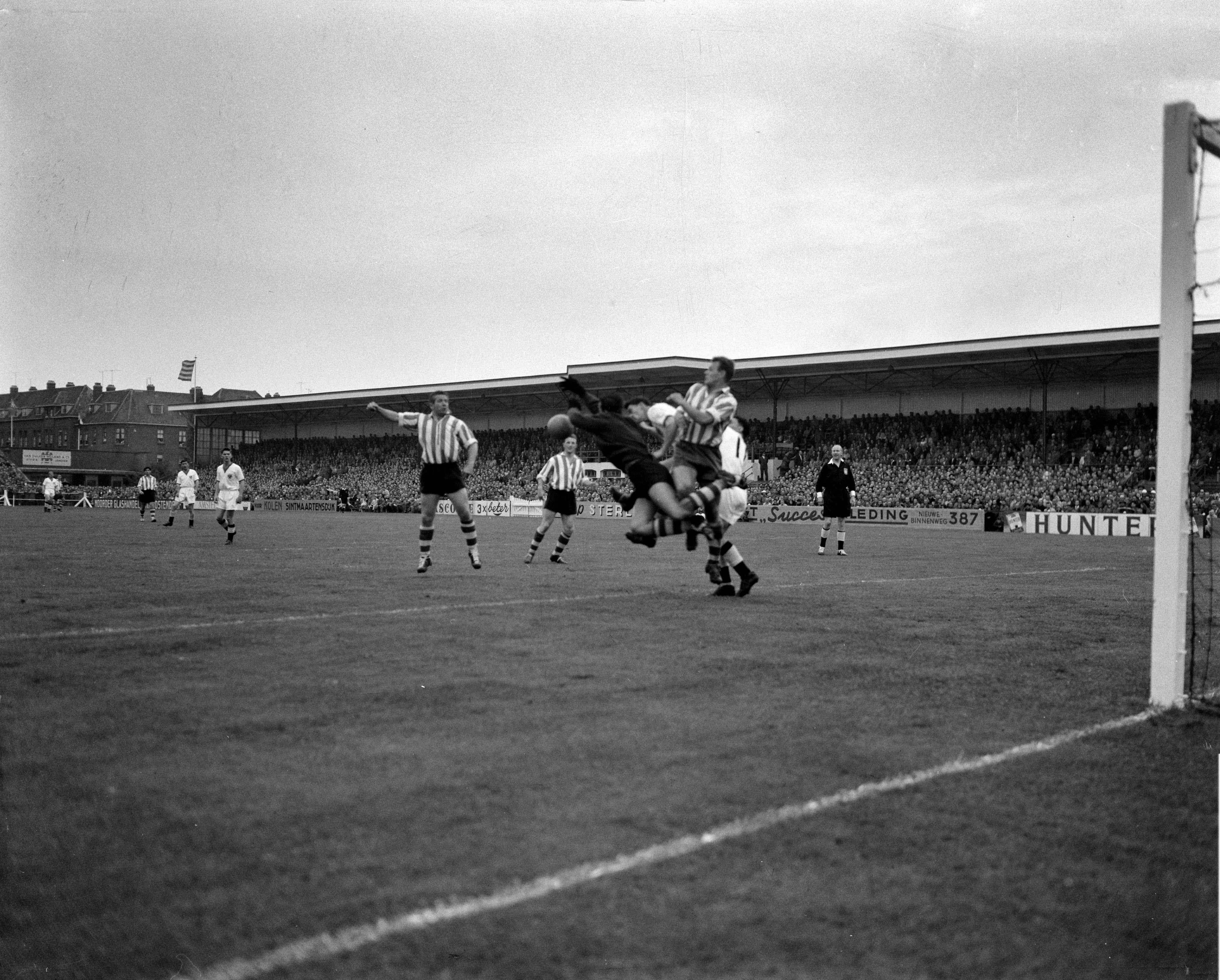 Dutch football club Sparta playing against FC Blackpool. Rotterdam, 15 August 1957